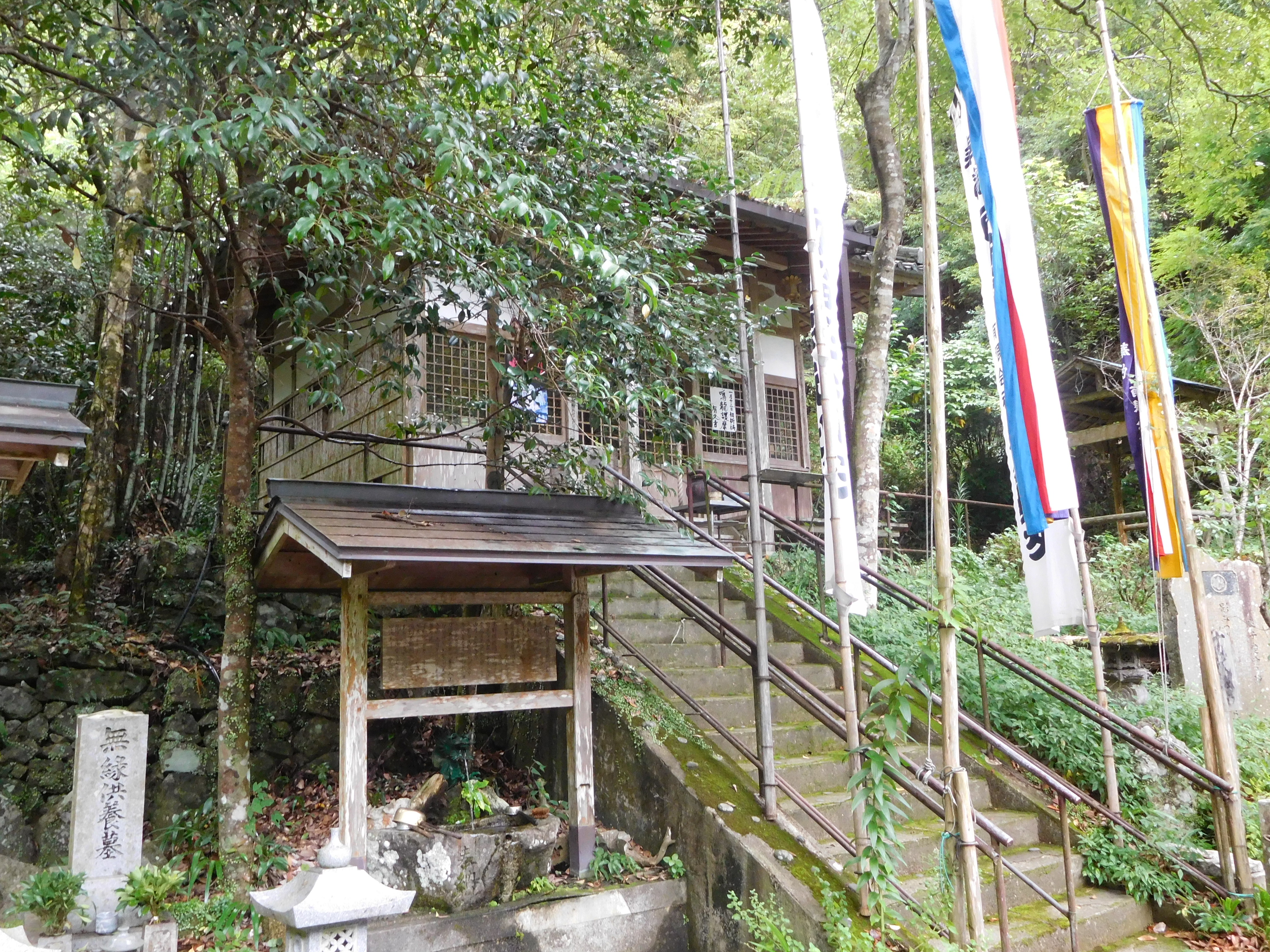 This is Ariku-ji Temple in Kihoku, Mie, Japan.